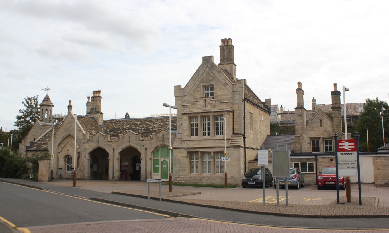 The railway station at Stamford was designed in a gothic style by Sancton Wood for the Midland Railway. Simon Jenkins gives it two stars in his list of Britain's 100 Best Railway Stations.